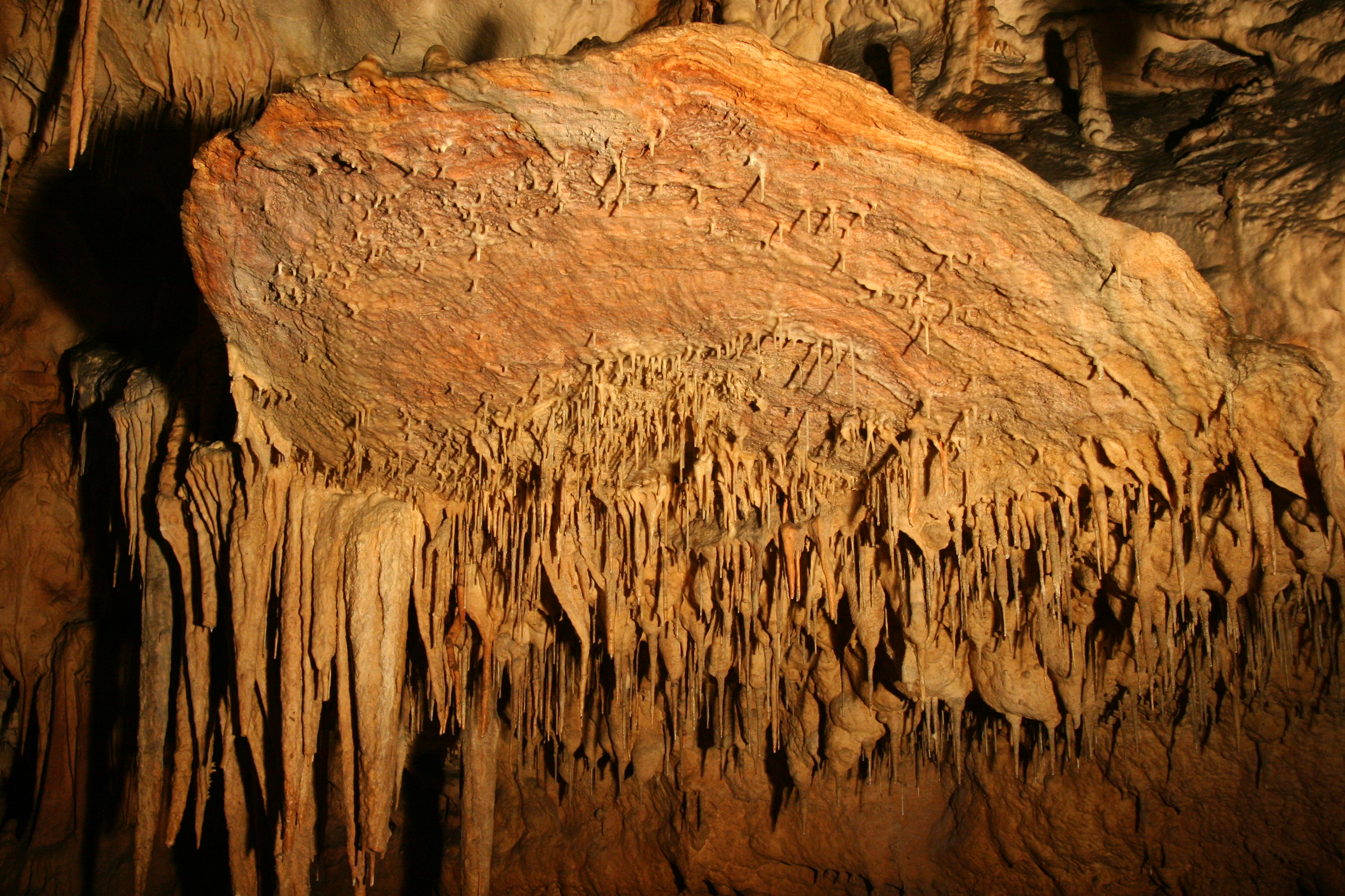 Domica Cave, Slovakia. Taking this photo was made possible through the financial support of Wikimedia Polska.